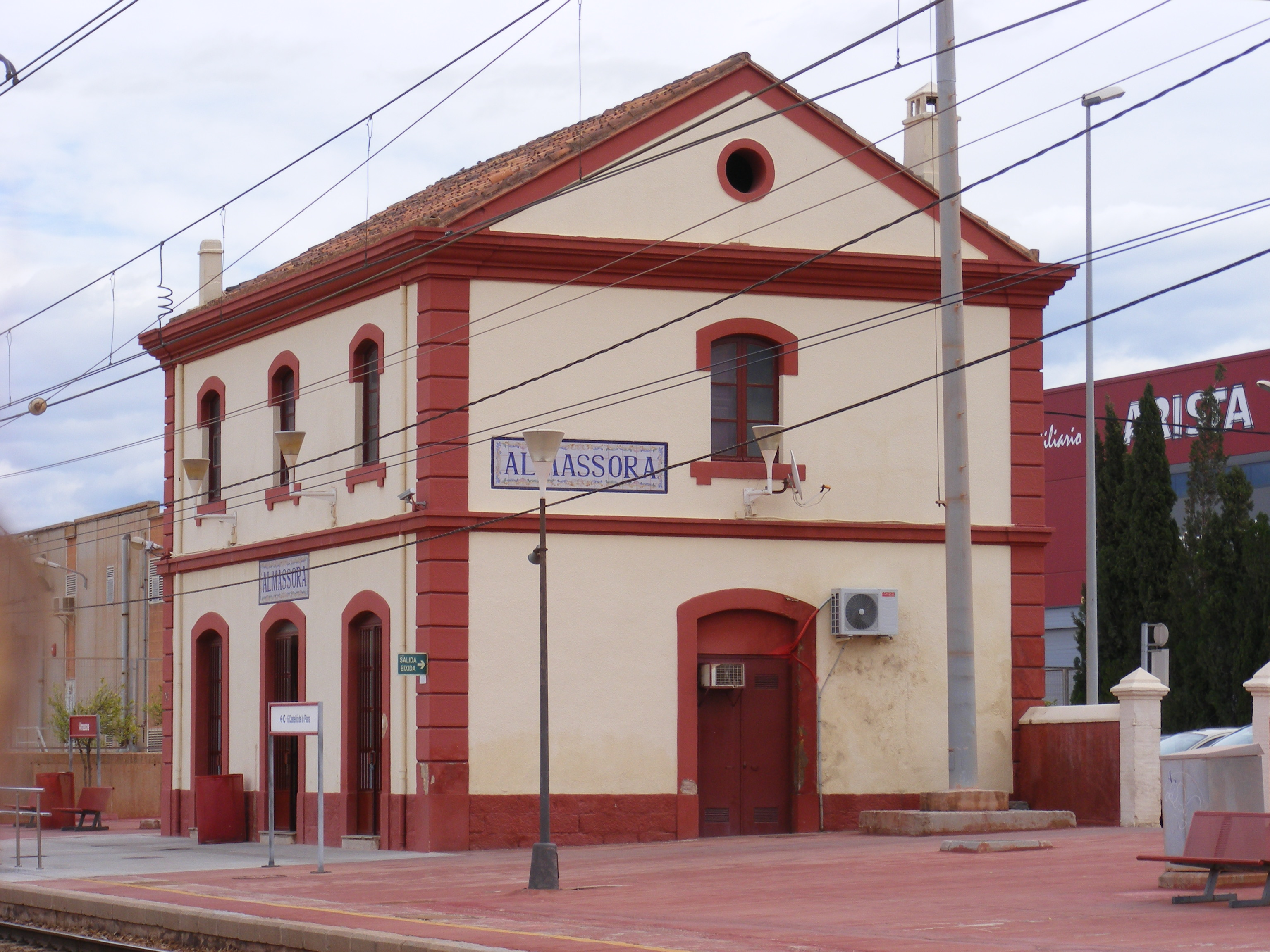 Train station in Almassora, Castelló province (Valencian Community).